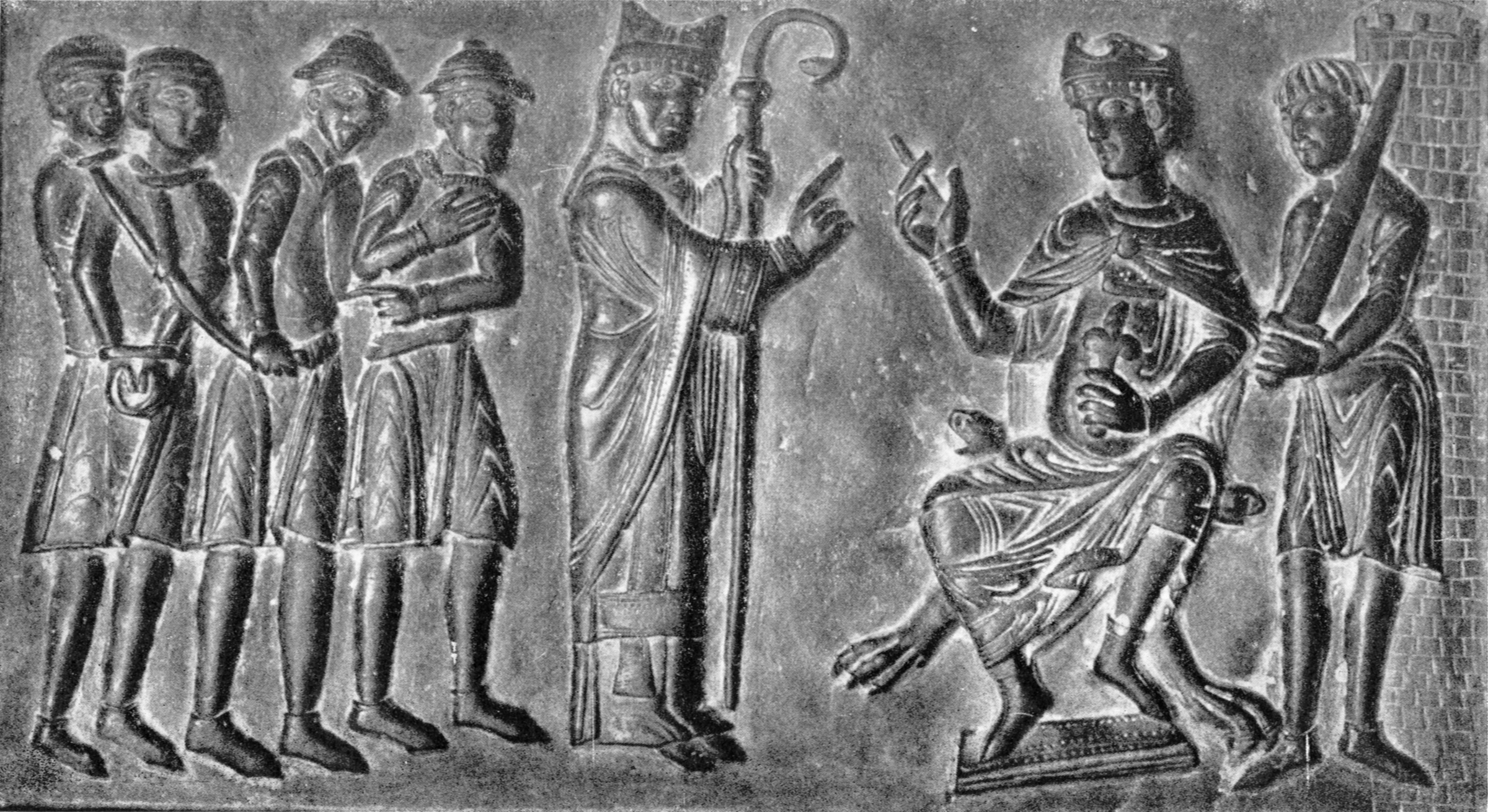 Gniezno Cathedral Door - detail. Saint Adalbert of Prague pleads with Boleslaus II, Duke of Bohemia, for the release of Christians slaves by their masters, Jewish merchants